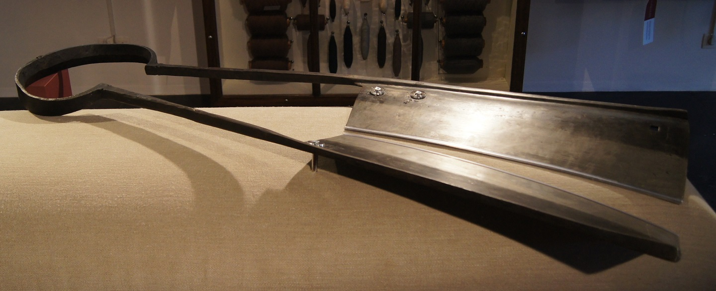 Textile scissors, Stadtmuseum Eupen